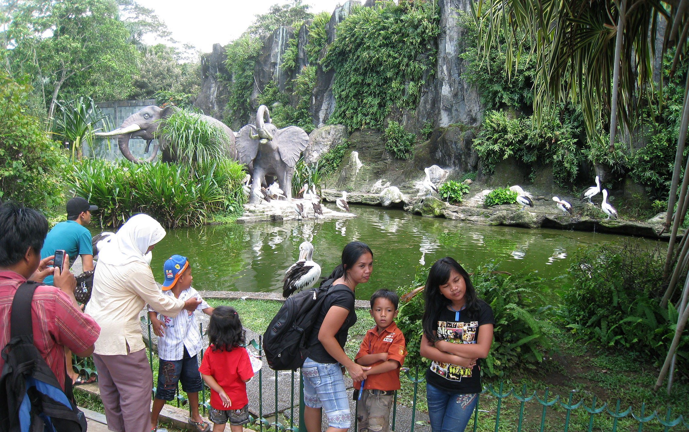 Ragunan Zoo visitors took photographs in front of Australian Pelican (Pelecanus conspicillatus) pond, Ragunan Zoo, South Jakarta, Indonesia.